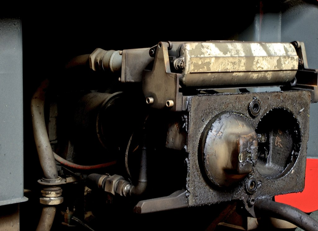 Scharfenberg coupler.